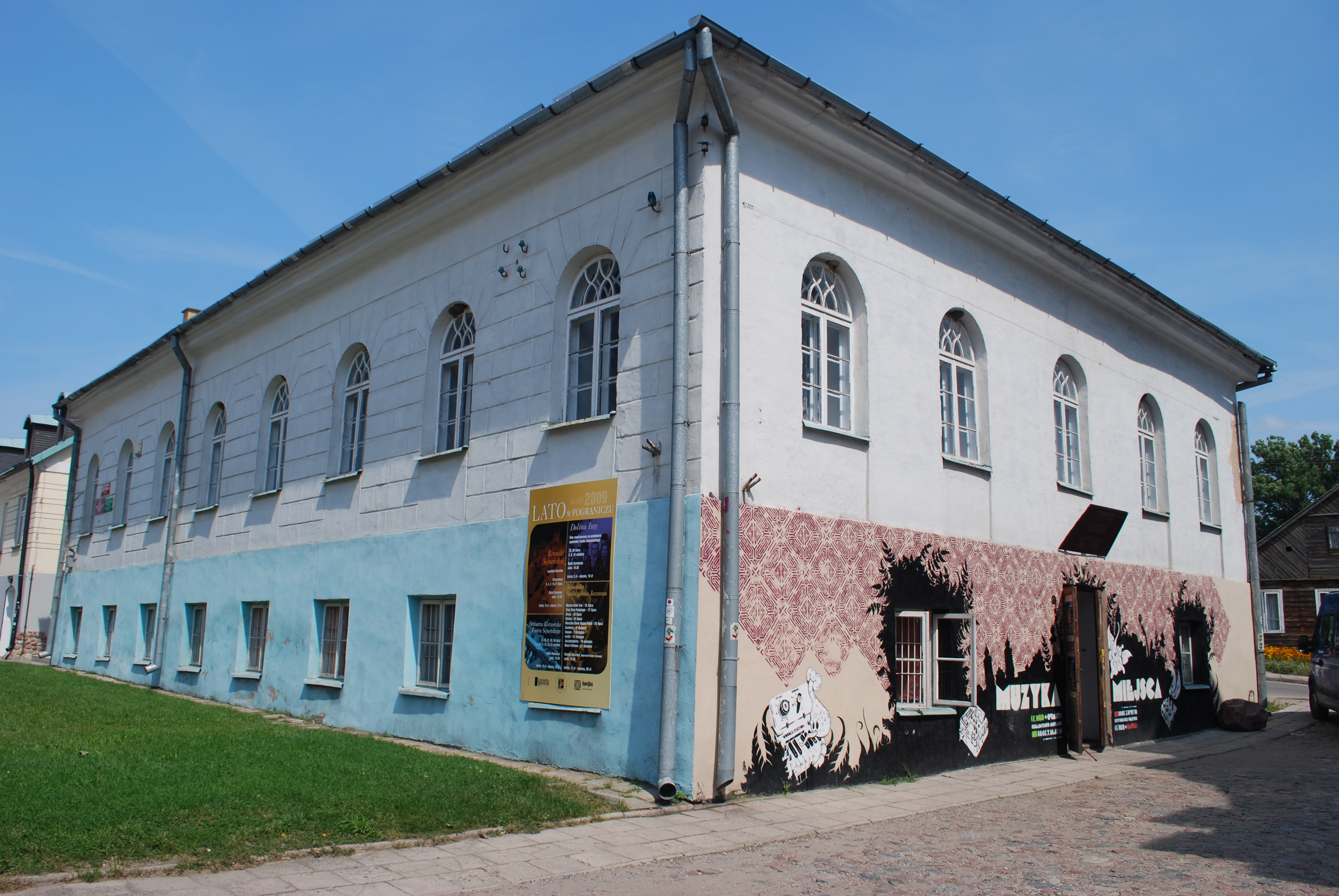 This photo from Podlaskie Voievodeship was taken during Polish Wikiexpedition 2009 set up by Wikimedia Polska Association. The making of this document was supported by Wikimedia Polska. Syngagoga w Sejnach, zwana Domem Talmudycznym - obecnie klub muzyczny.